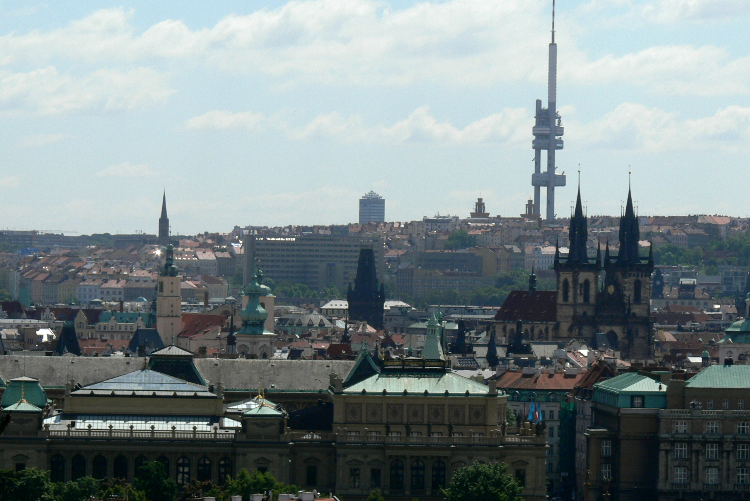 Prague castle. View to the old town and Žižkov Television Tower